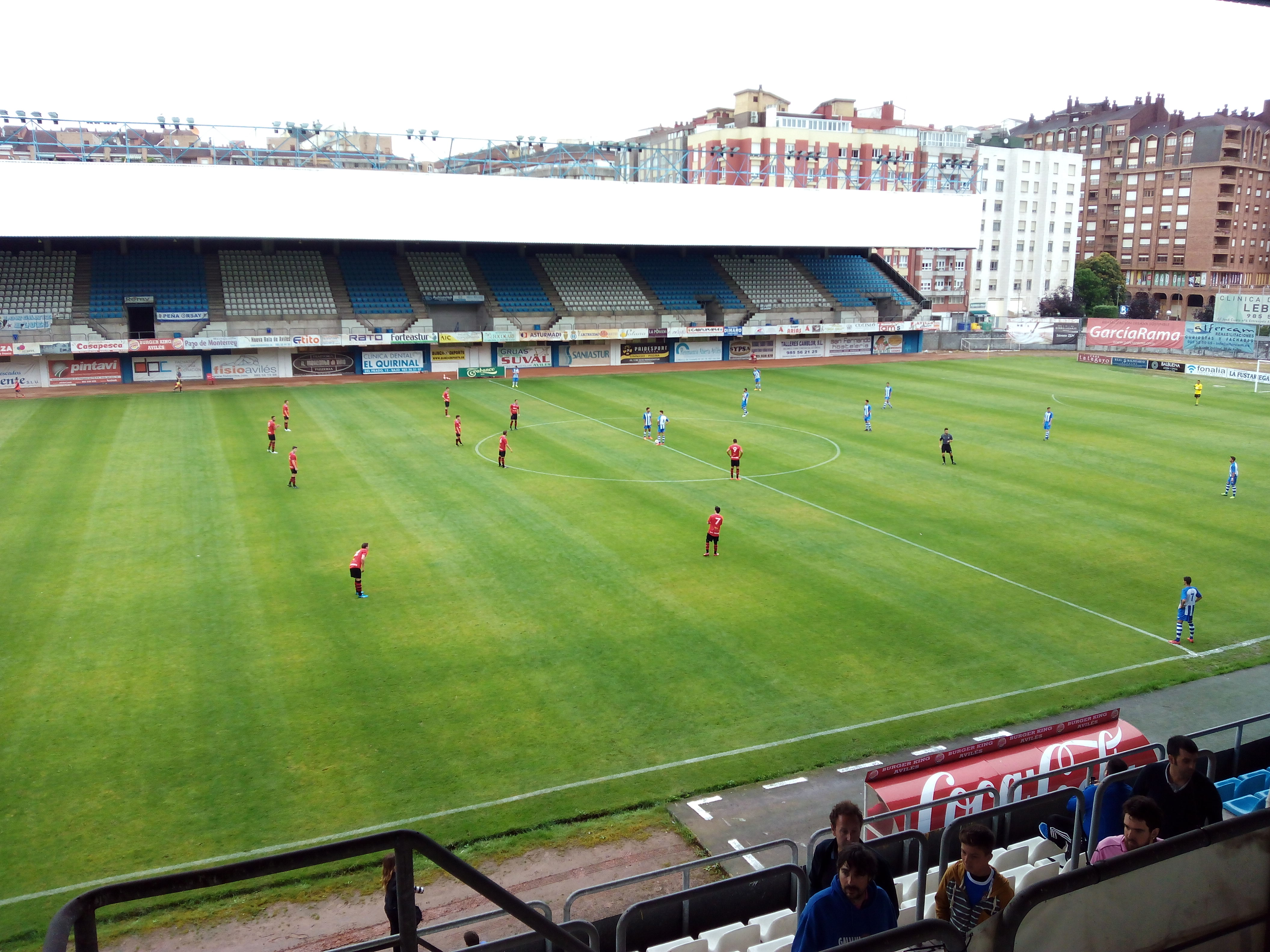 Estadio Román Suárez Puerta, in Avilés, during a football game between Real Avilés and UC Ceares.